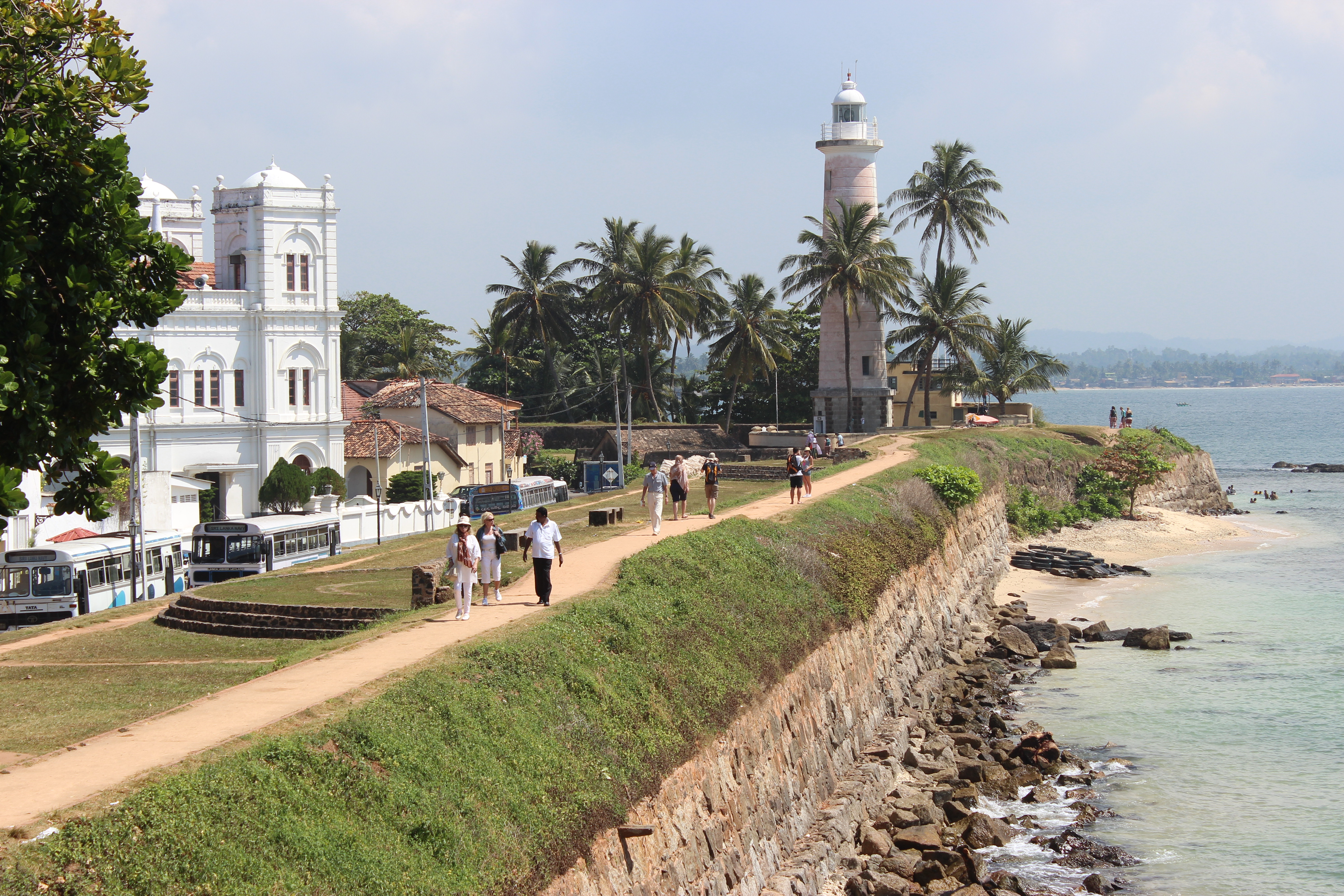 Galle Fort, Sri Lanka